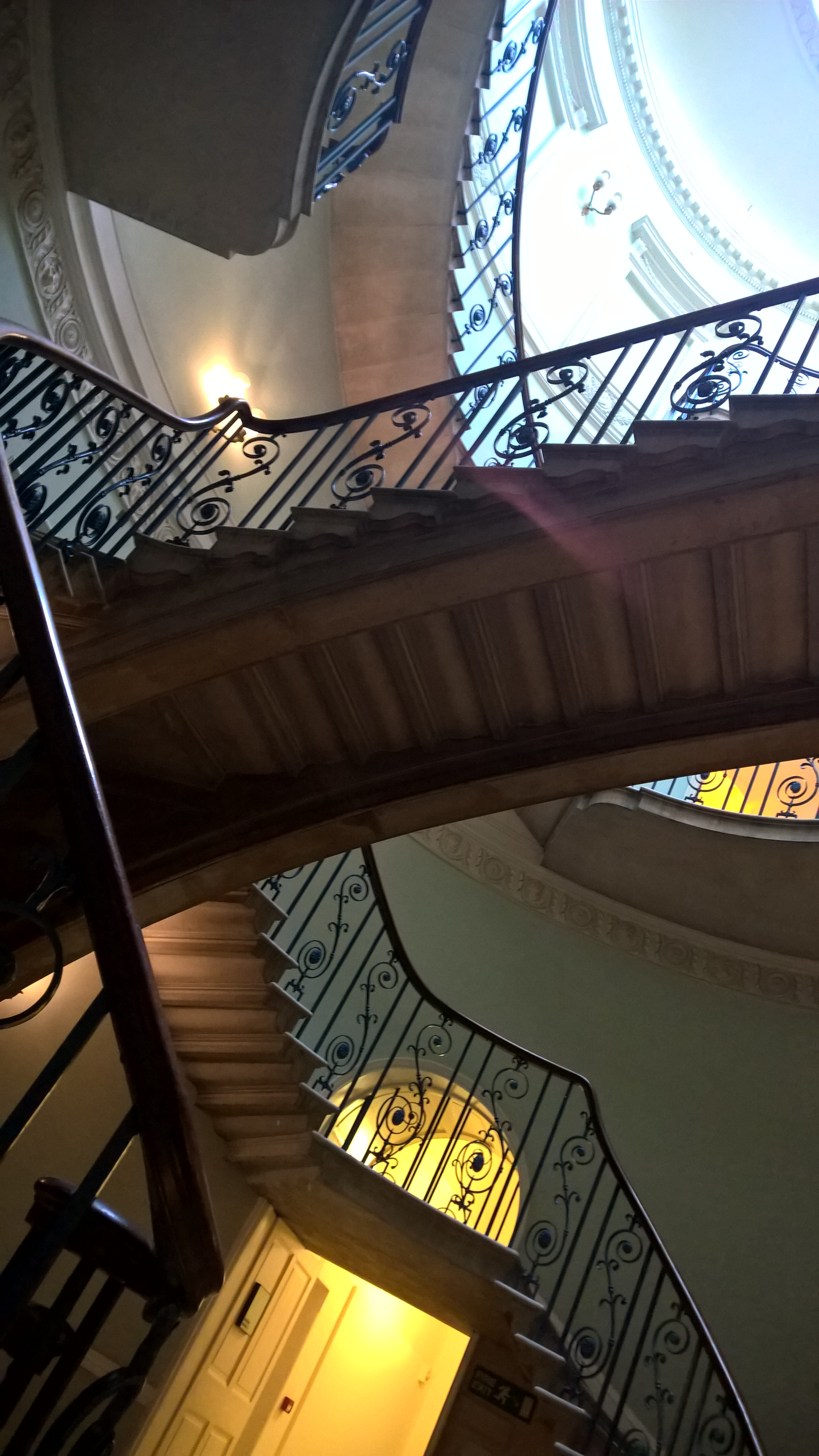 Somerset House was built to serve as government offices and to house learned institutions in the late-18th century. The architect was William Chambers (1726-1796). The Navy Board was given prominent rooms in the south and west wings, with access provided by way of this oval staircase (the Navy Stair), later renamed after Admiral Lord Nelson. It was severely damaged during a bombing raid in 1940 and subsequently restored by Sir Albert Richardson.